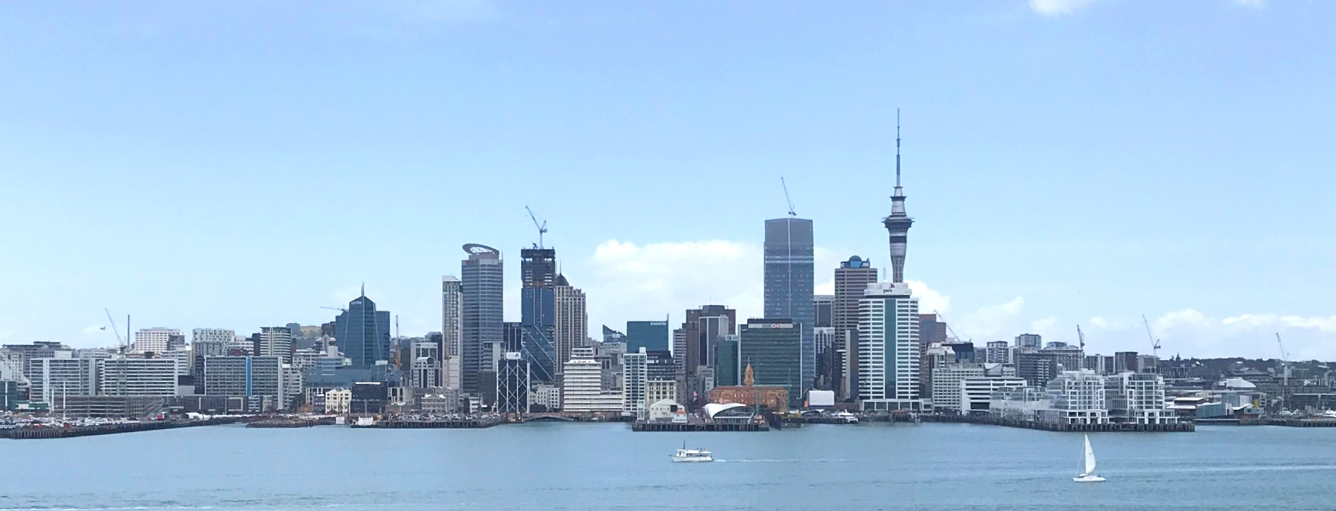 Taken from Cyril Bassett VC Lookout, Devonport